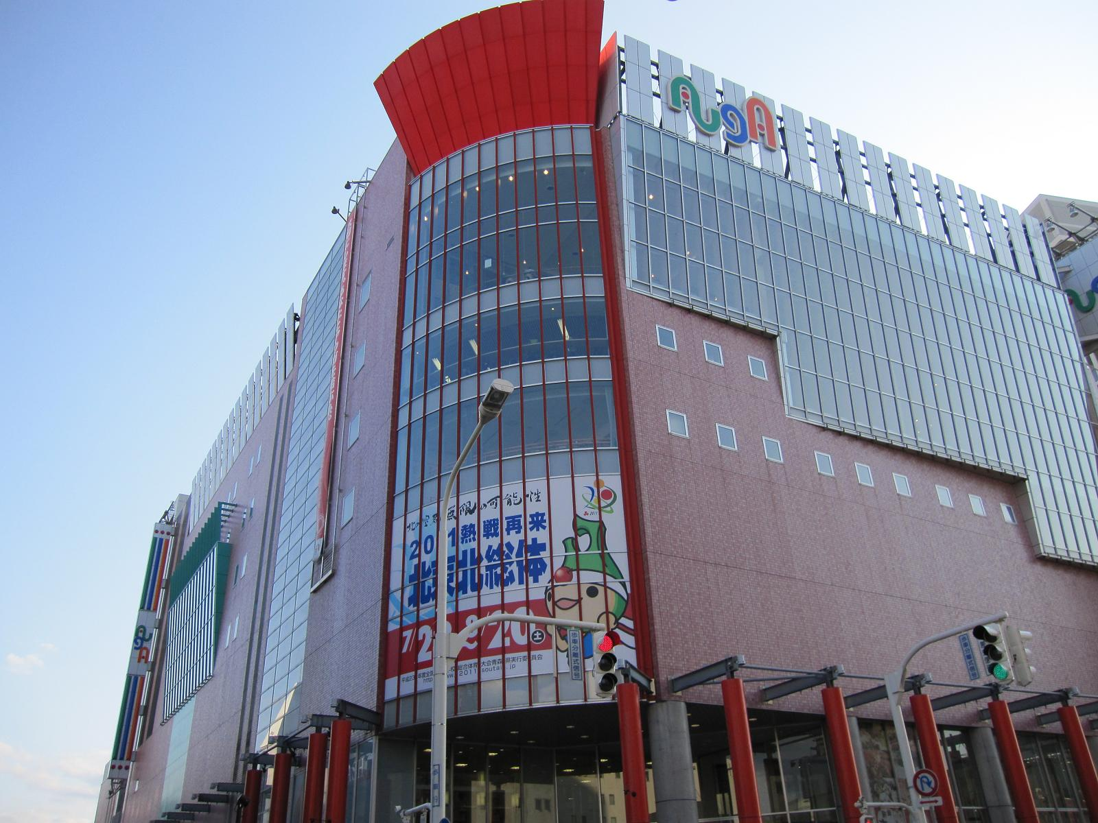 AUGA